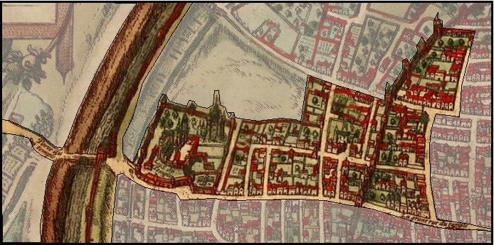 Templar Quarter in Paris (1530)